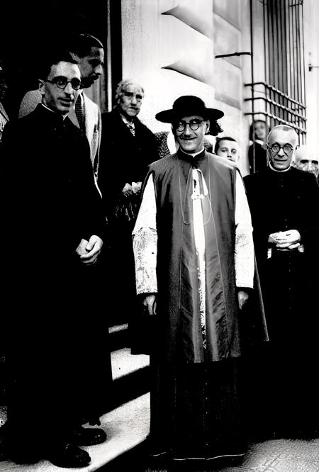 Giuseppe Siri (1906–1989) when he was appointed auxiliary bishop of Genoa, Italy, in 1944, wearing a purple mantelletta. He was appointed a cardinal of the Roman Catholic Church by Pope Pius XII in 1953.